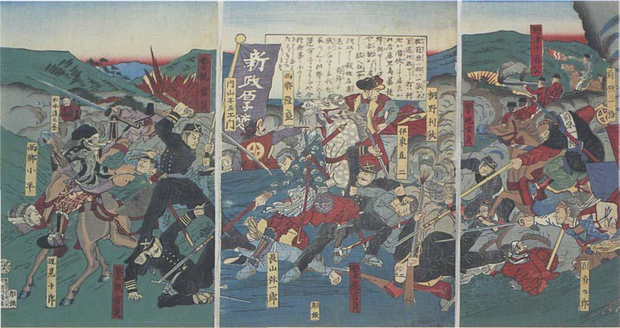 Saigo Takamori fighting goverment's troops during the Satsuma rebellion